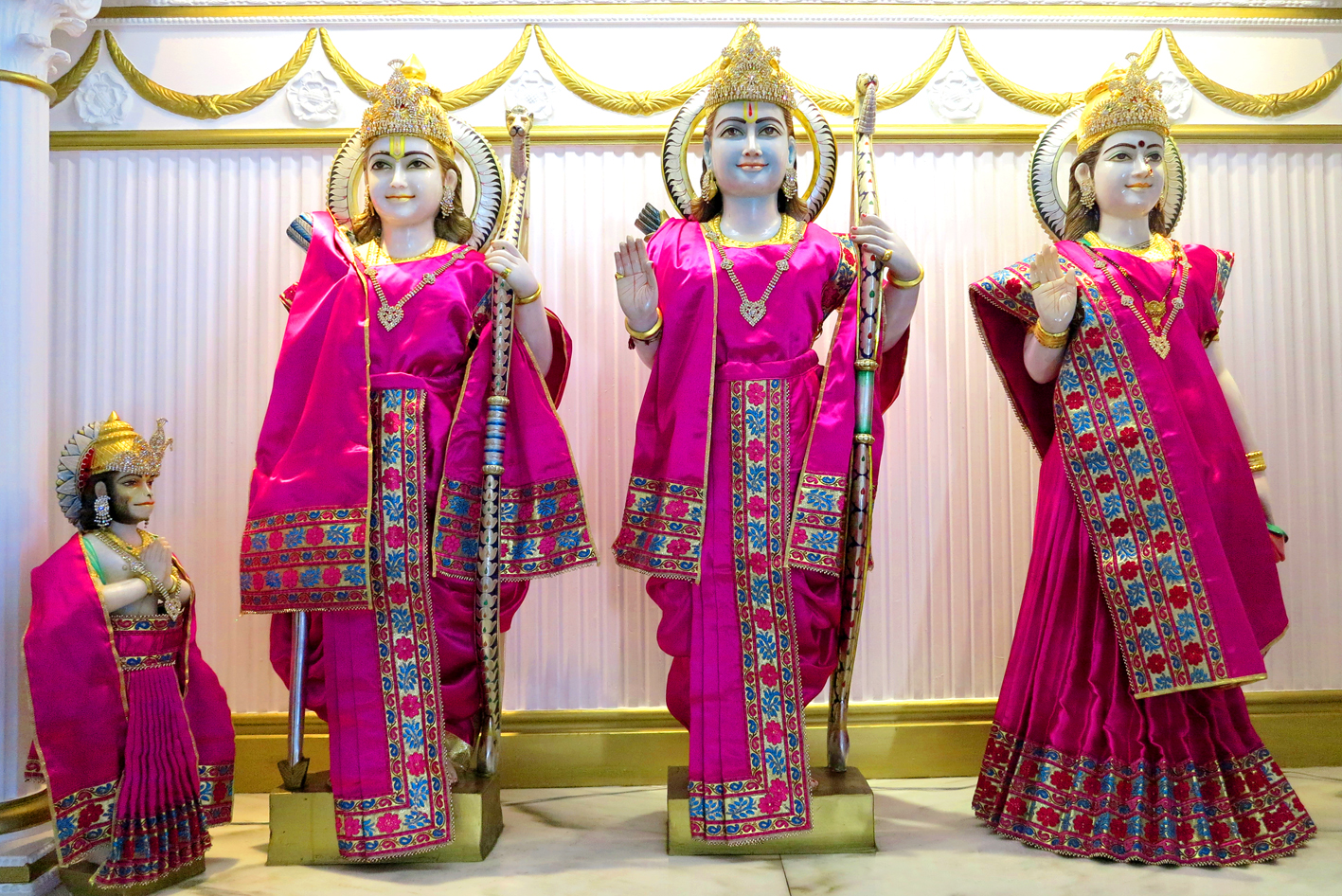 Ram, Sita, Lakshman and Hanuman - pictured at Gibraltar Hindu Temple